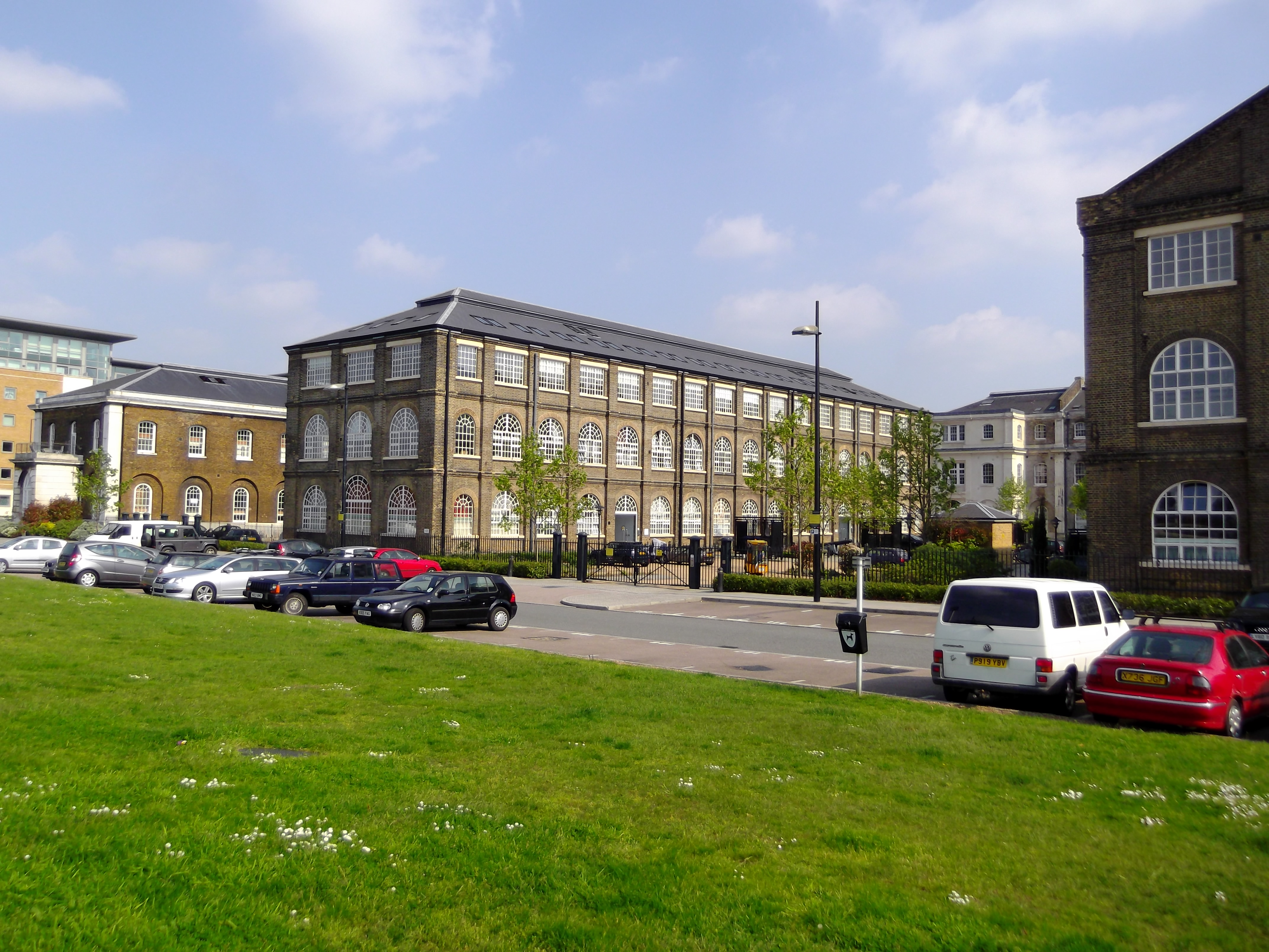 View from Wellington Park of "the Grand Store" on Cadogan Road, Royal Arsenal, Woolwich, South East London.